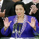 Coretta Scott King acknowledging applause at a Lagos, Nigeria, celebration of her late husband's legacy